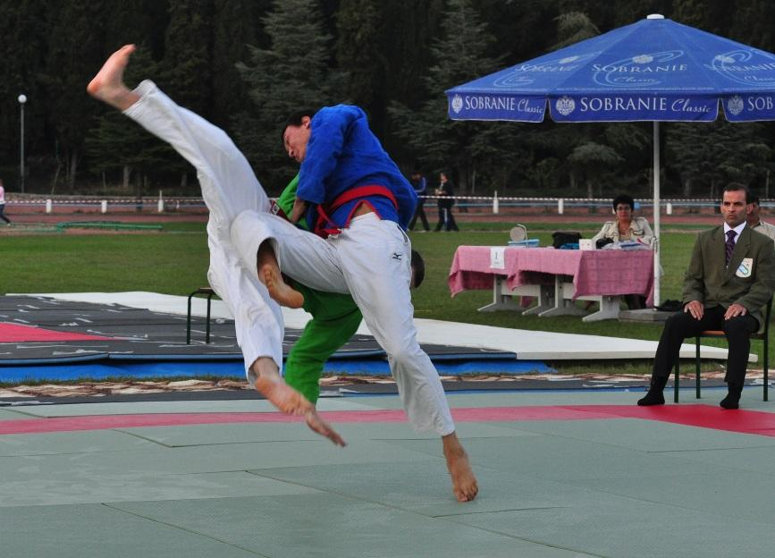 OLYMPIC KURASH IN ACTION Unknown